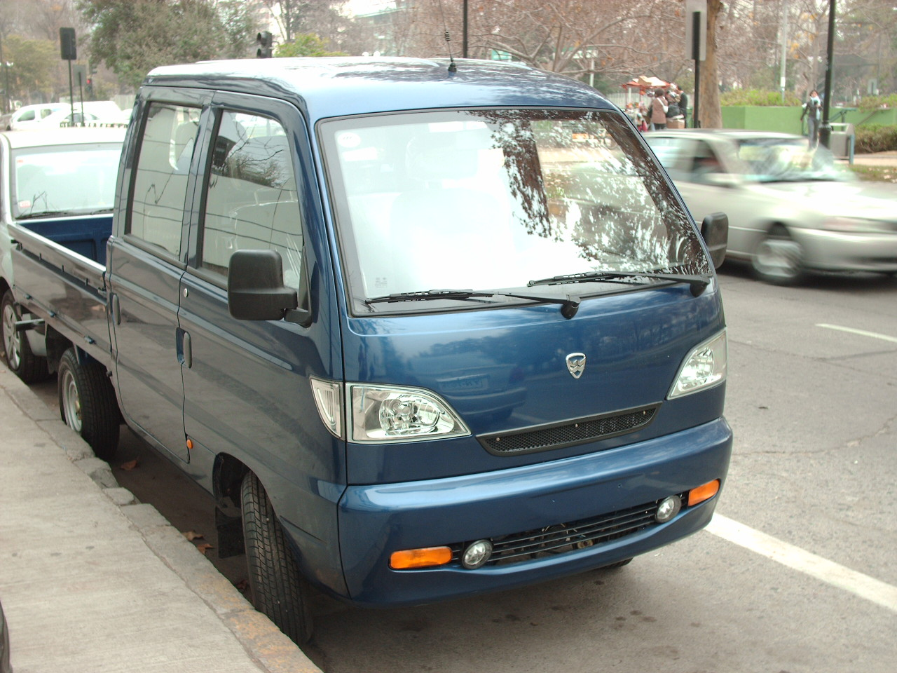 Hafei Ruiyi pickup in Santiago, Chile. So new it hasn´t got its license plates yet, and its seats are still covered in plastic.